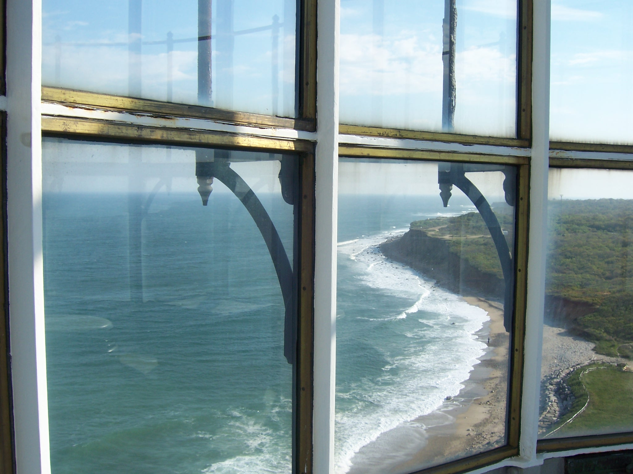 I took this image myself while visiting the lighthouse in 2006.